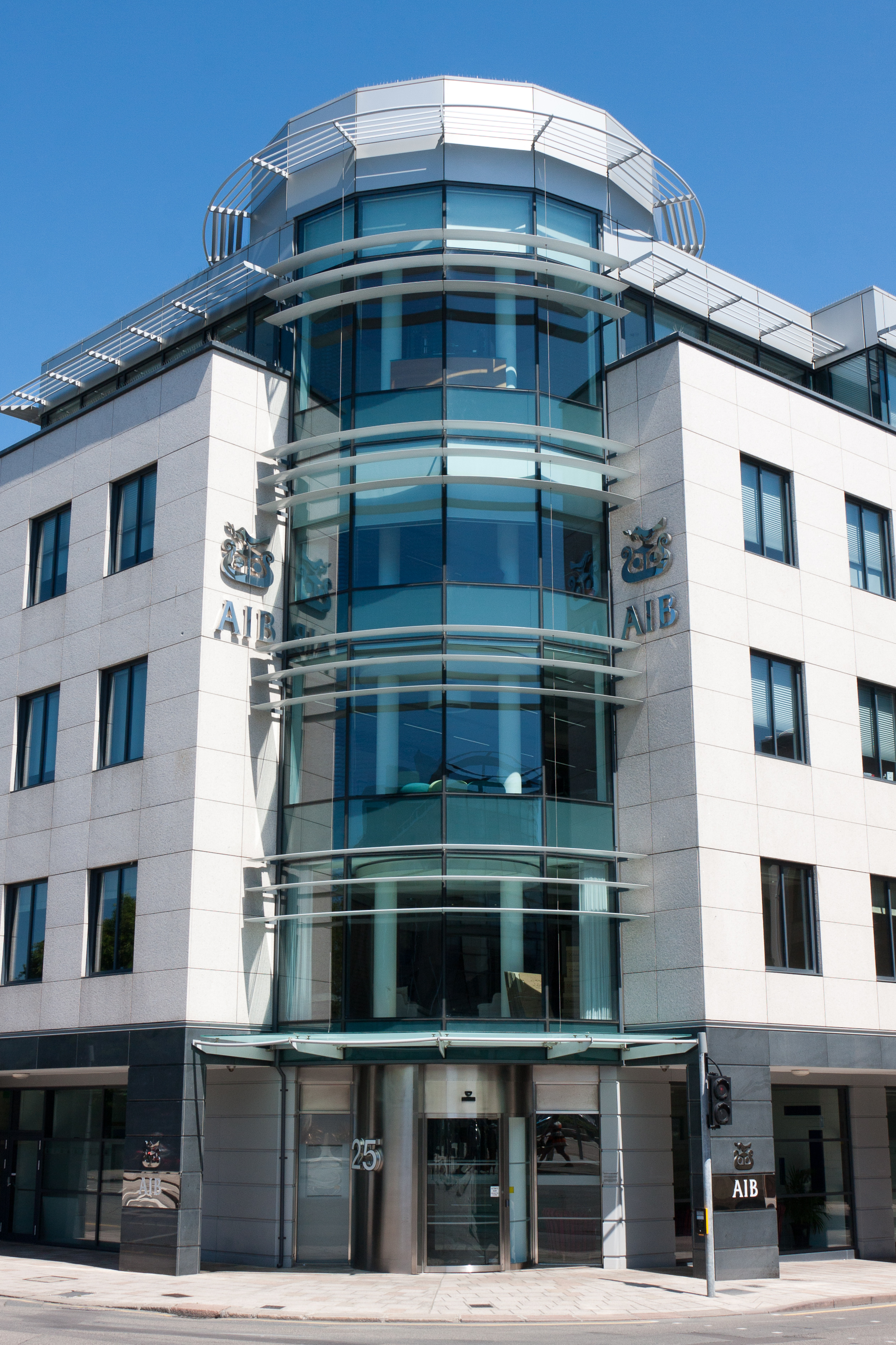 AIB Bank, St. Helier, Jersey.